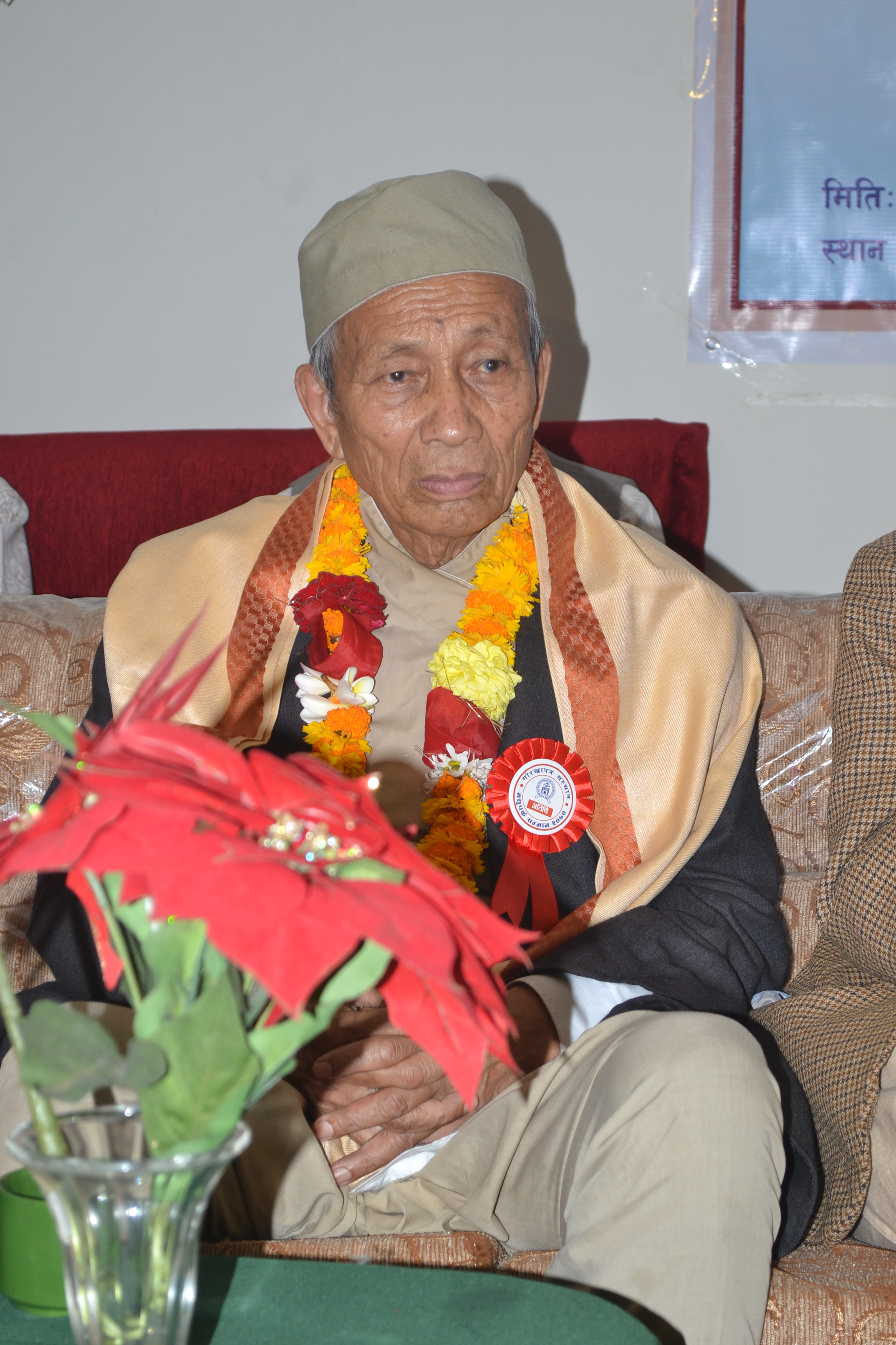 Satya Mohan Joshi at Tinkune.